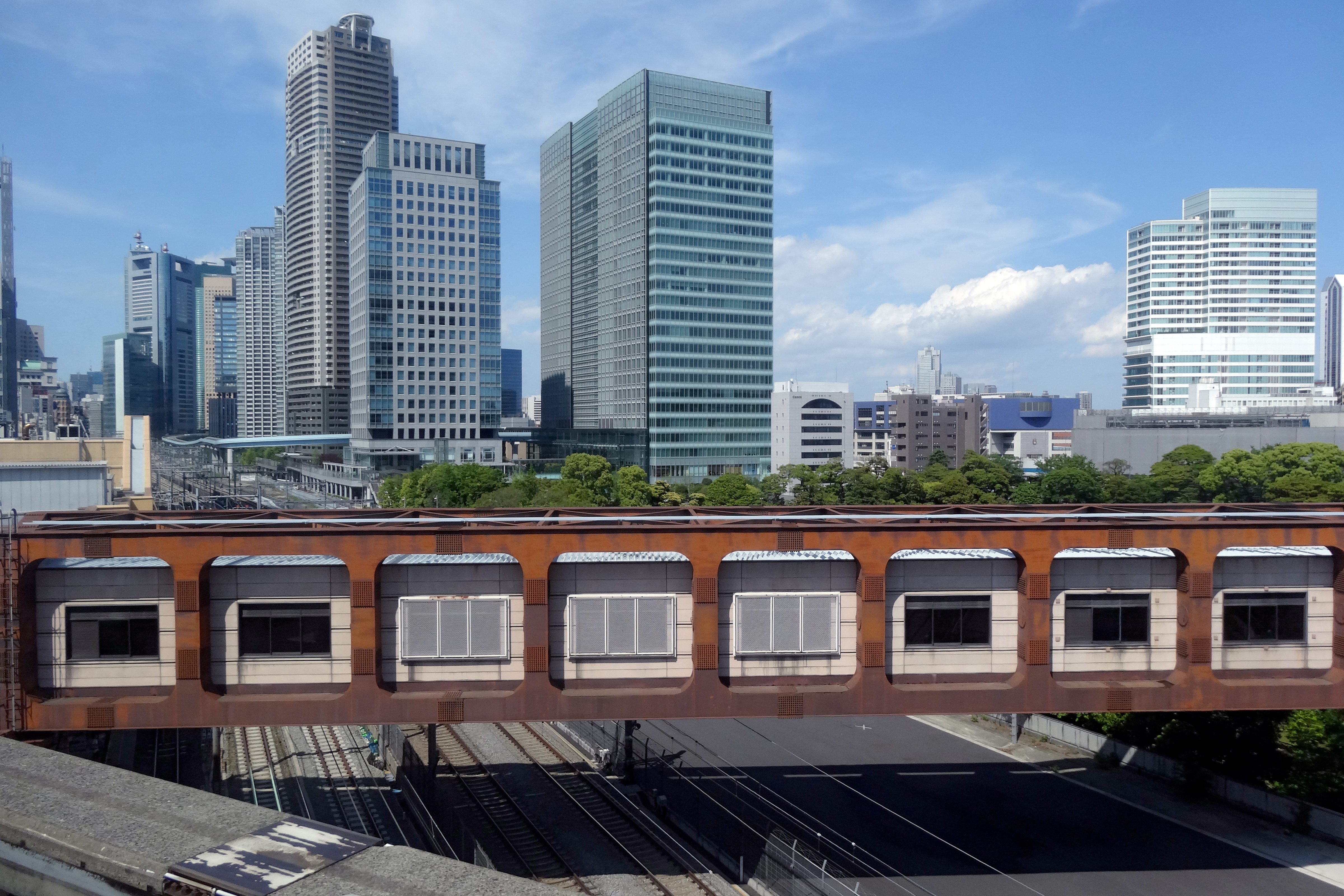 A Overpass of Hamamatsuchō Station in Minato-ku, Tokyo, Japan.